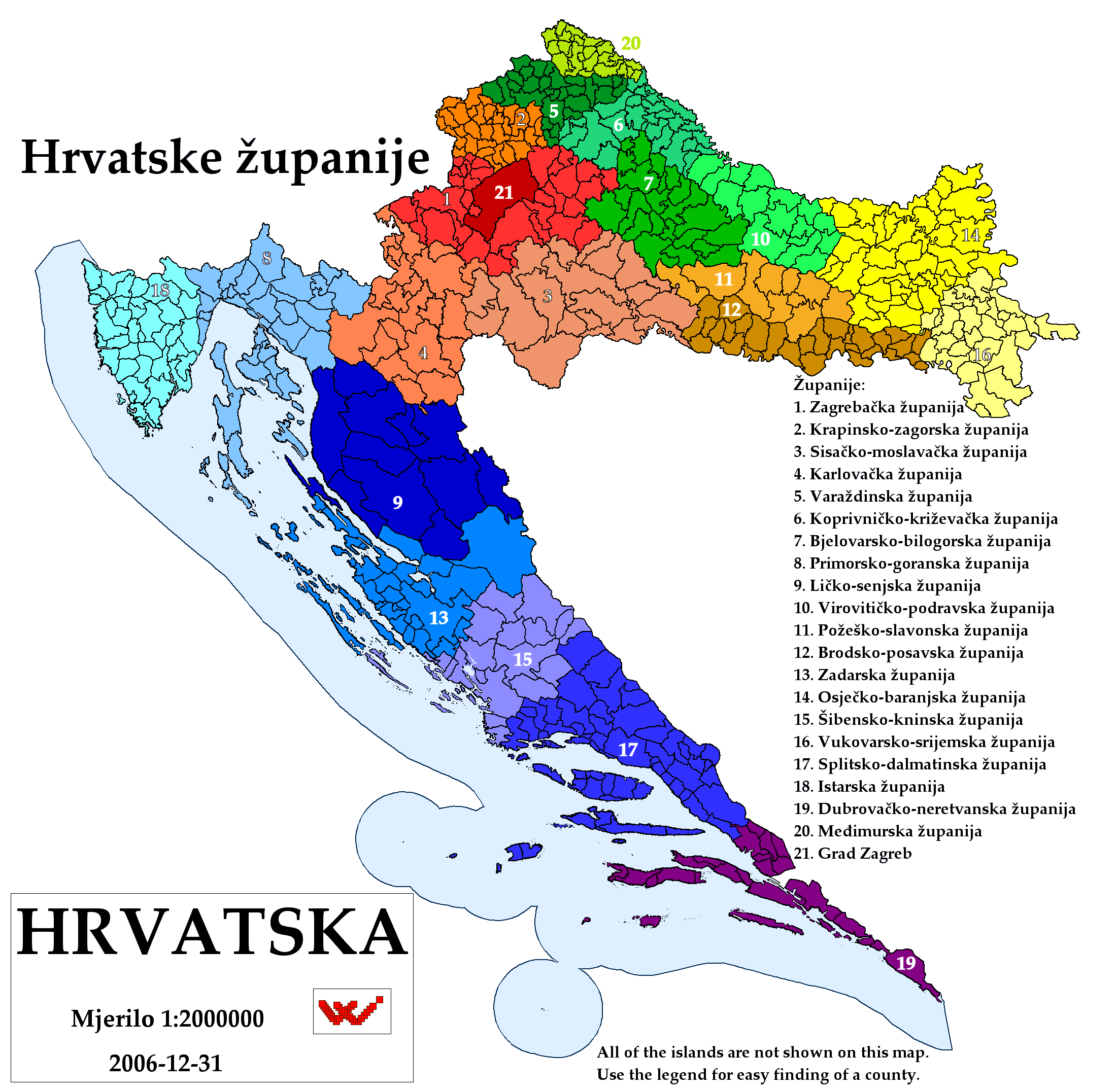 Counties of Croatia from 1997-02-07 to today